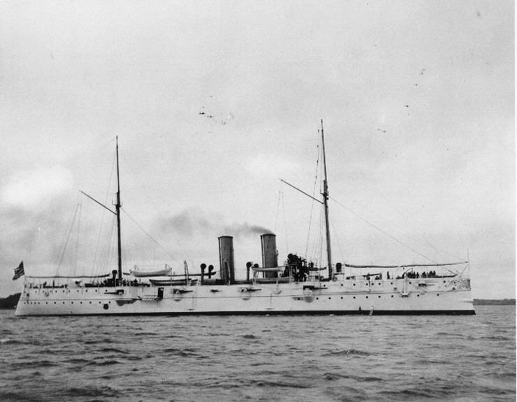 Photo #: NH 46635, USS Cincinnati (C-7) Identification on the original photo of this ship as Marblehead is incorrect. Both stern configuration and details of bow decoration confirm that this cruiser is really Cincinnati. Removed caption read: Photo # NH 46635 USS Cincinnati (not Marblehead)